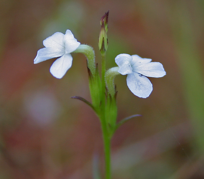 Agya Striga densiflora in Hyderabad , India.